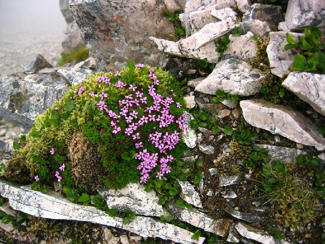 Purple Saxifrage on Sgurr Ban. Commonly found along with some thyme and thrift along the quartzite ridges on Ben Eighe.